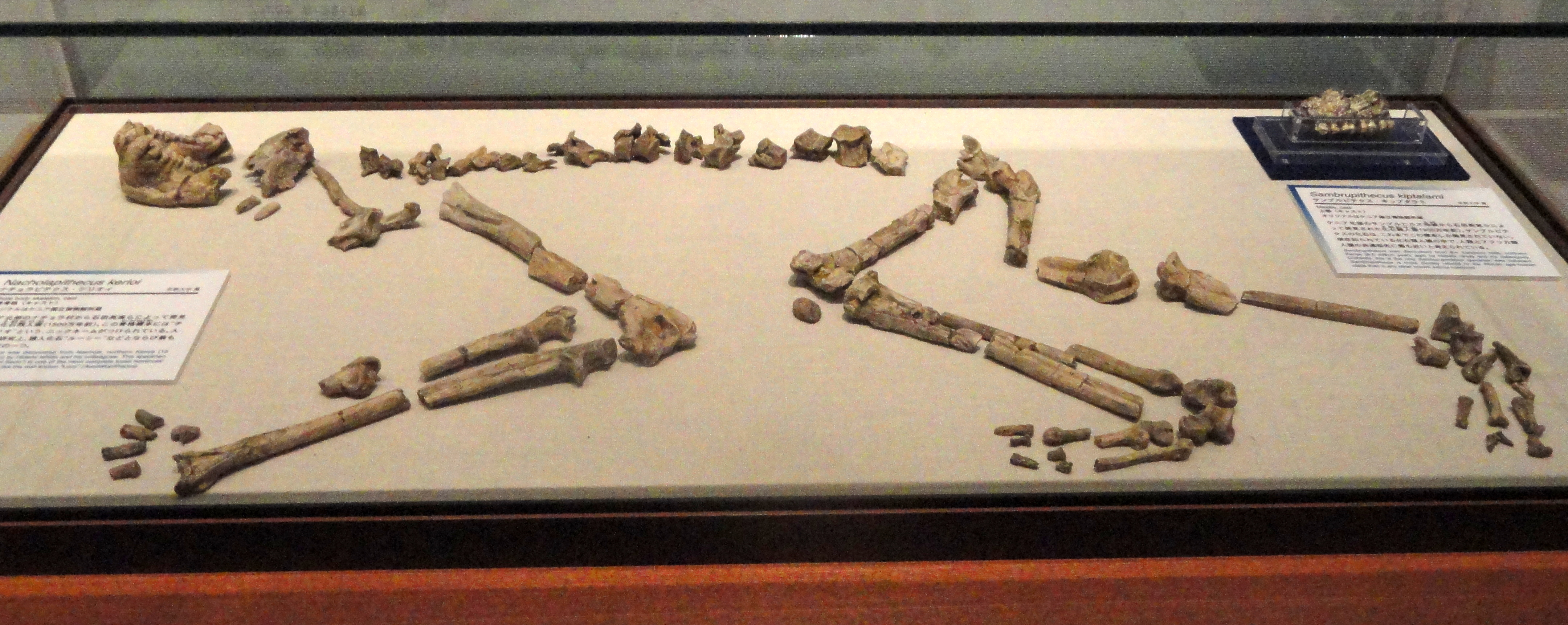 Exhibit in the Kyoto University Museum, Kyoto, Japan.